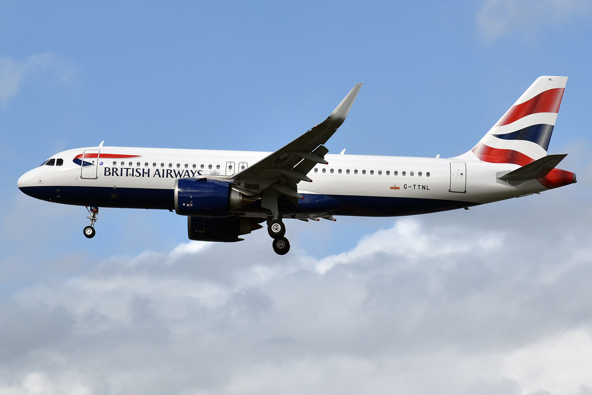 British Airways, G-TTNL, Airbus A320-251N